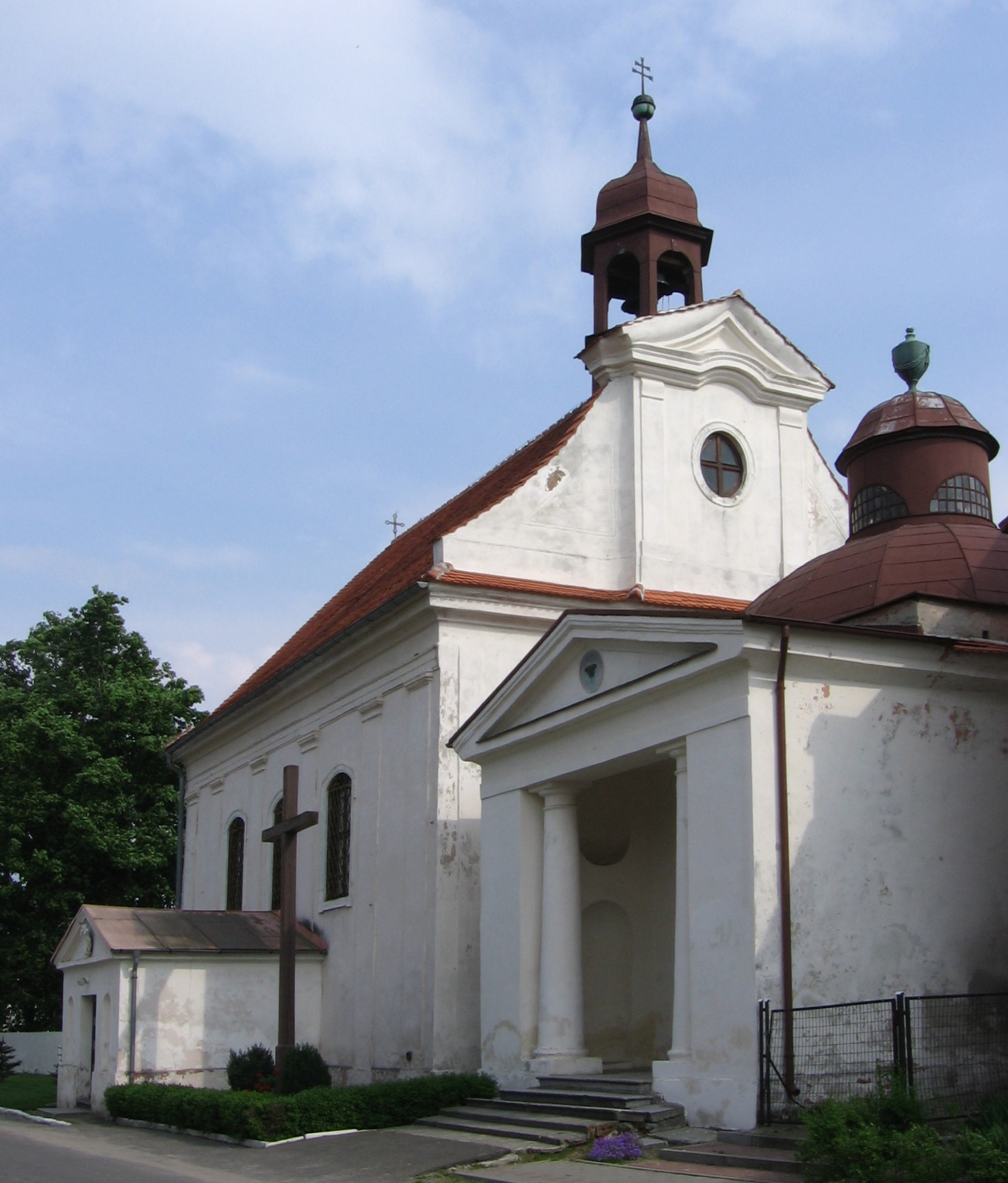 Church in village Psary near town Oława